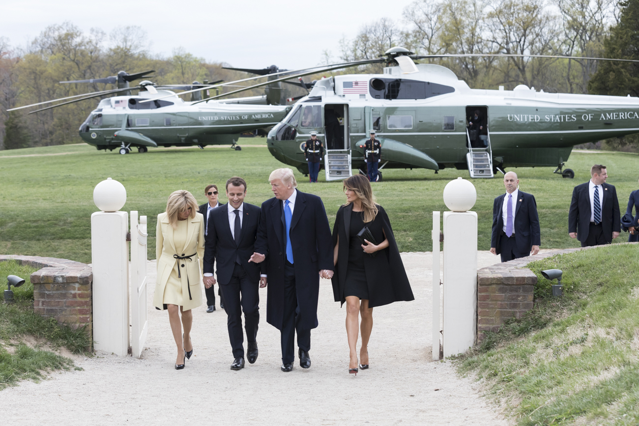 President Donald J. Trump and First Lady Melania Trump with President Macron and Mrs. Macron of France at Mount Vernon (Official White House Photo by Shealah Craighead)